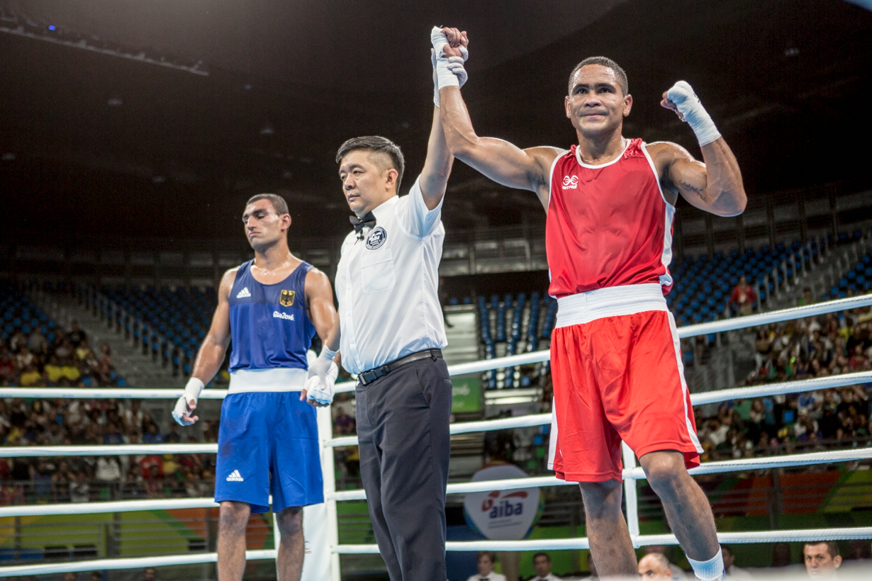 Day 3 at the 2016 Summer Olympics. Boxing 69 kg. Round of 32, Gabriel Maestre (Venezuela) vs Arajik Marutjan (Germany)